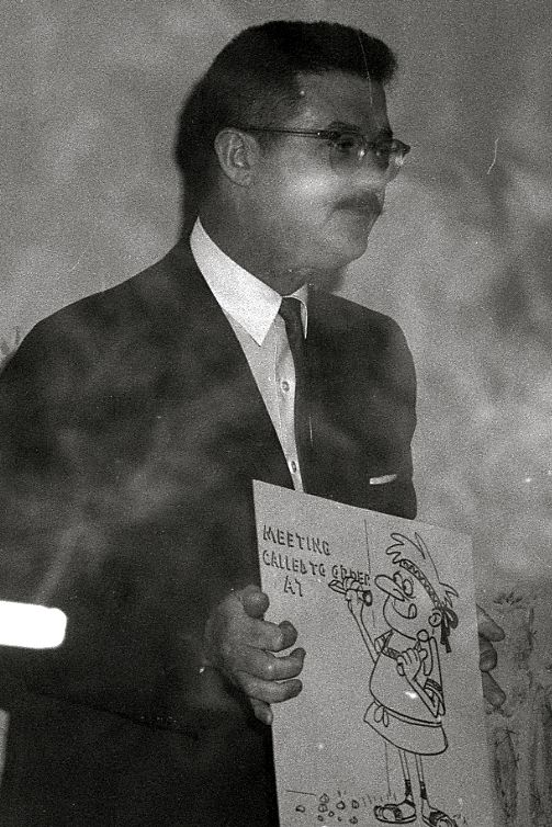 Bill Scott, holding one of his drawings and seen through cigarette smoke Other information Photo by George Garrigues